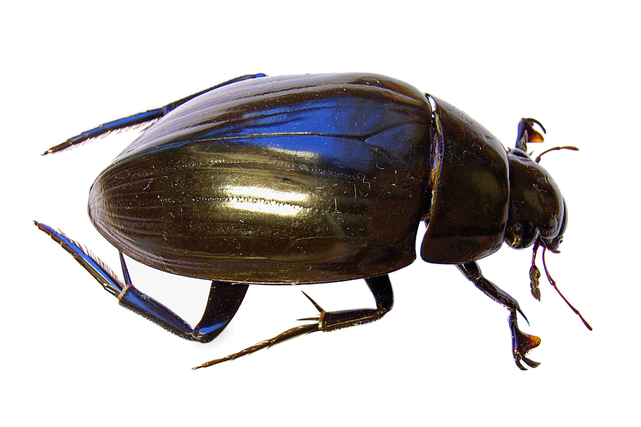 Hydrophilus piceus male from above